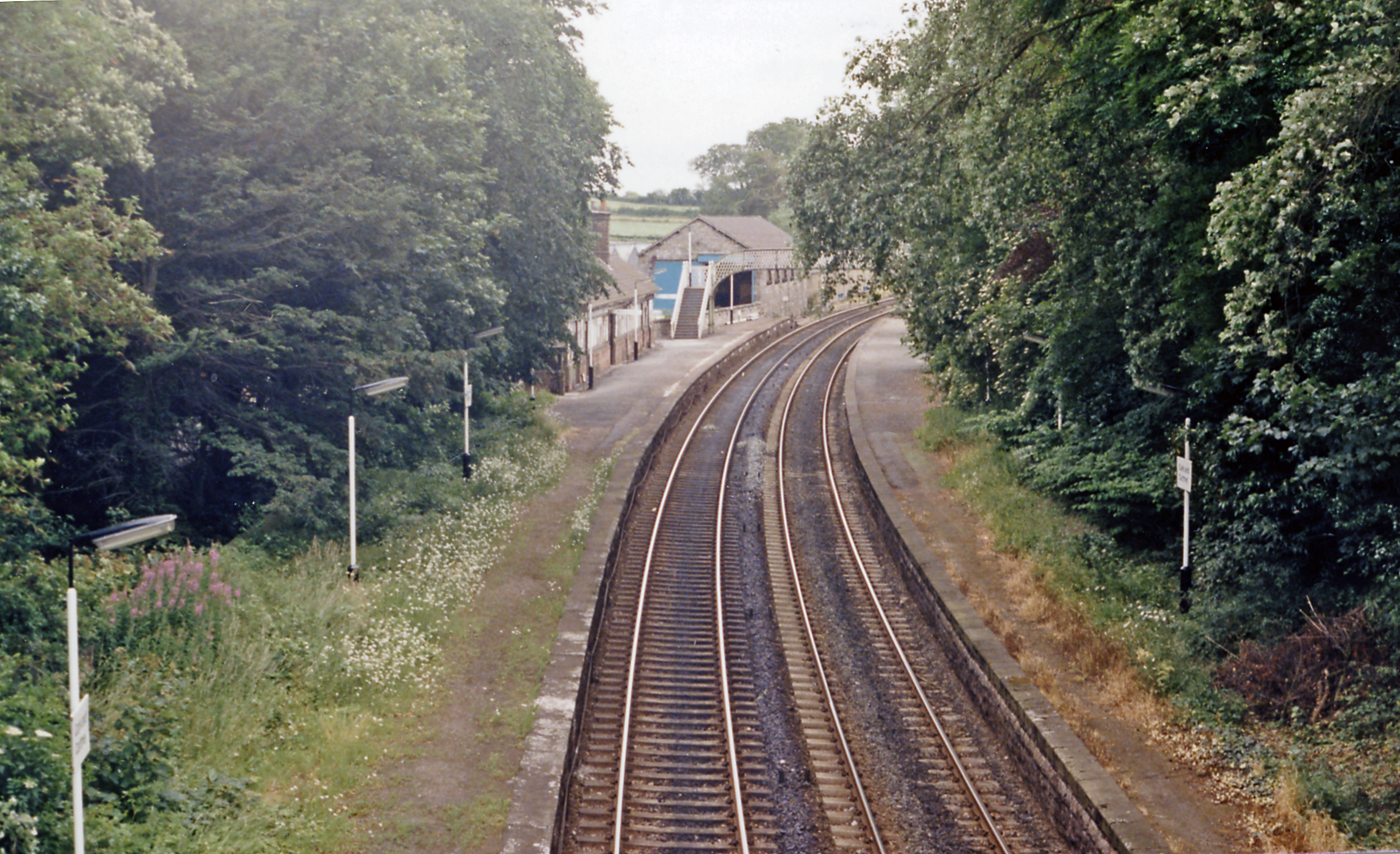 Cark & Cartmel station, 1986. View SE, towards Carnforth: ex-Furness Railway Carnforth - Barrow-in-Furness - Whitehaven secondary main line. The station is still open - in spite of appearances.